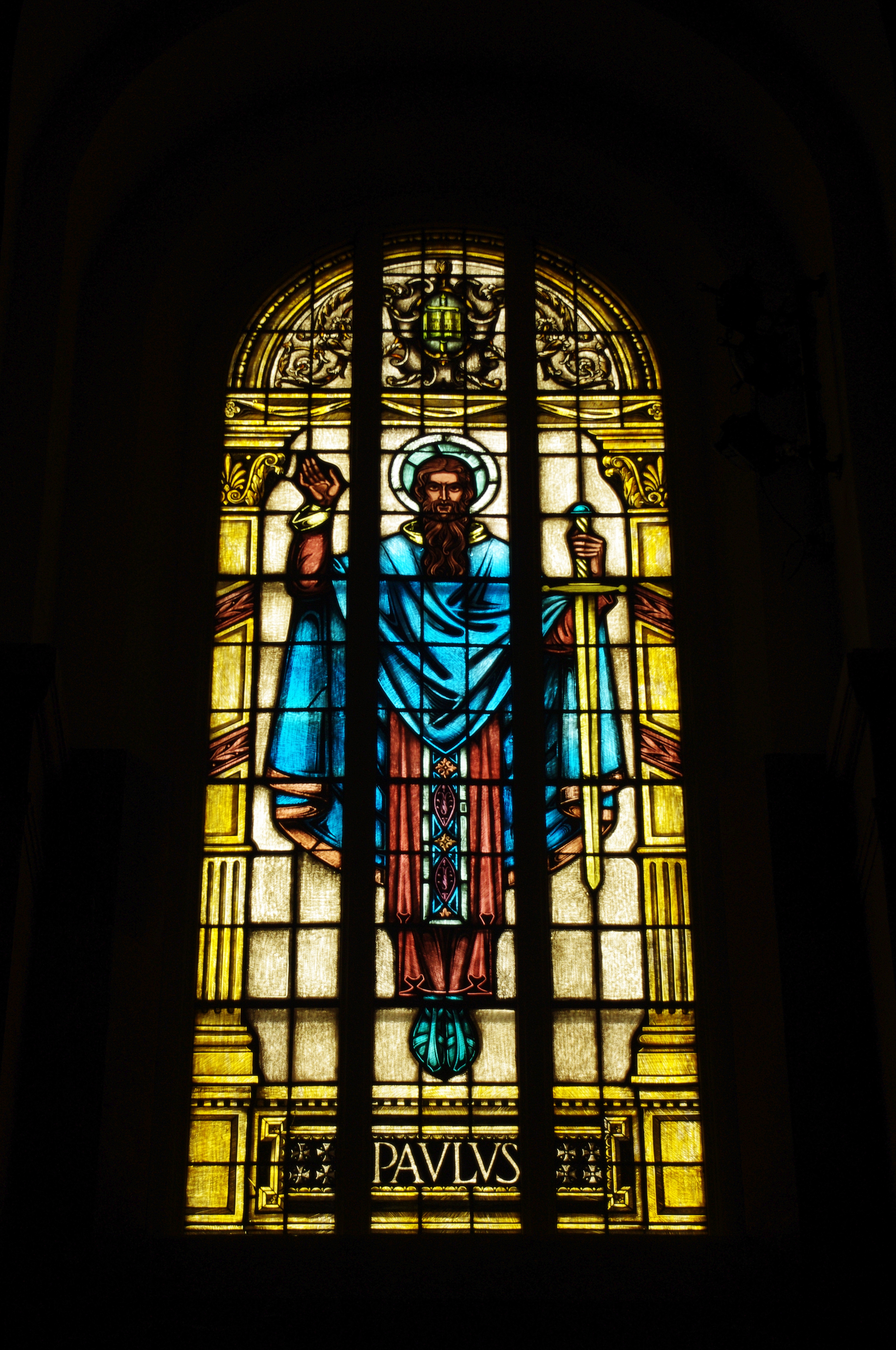 Saints Peter & Paul Cathedral (Indianapolis, Indiana), interior, sanctuary, stained glass, St. Paul